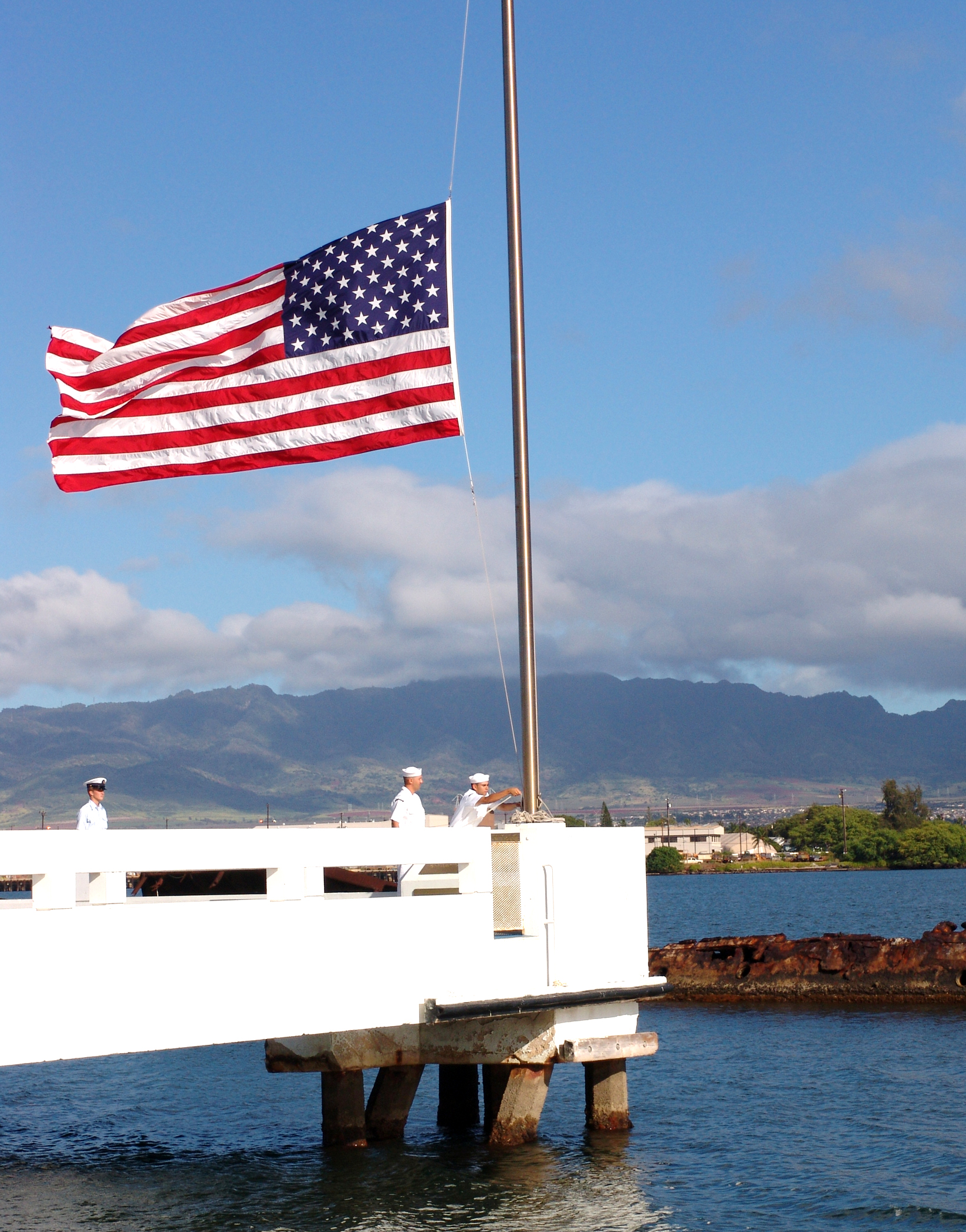 Pearl Harbor, Hawaii (May 31, 2004) - Sailors assigned to ships based at Pearl Harbor bring the flag to half-mast over the USS Utah Memorial on Ford Island in honor of Memorial Day May 31, 2004. U.S. Navy photo (RELEASED)